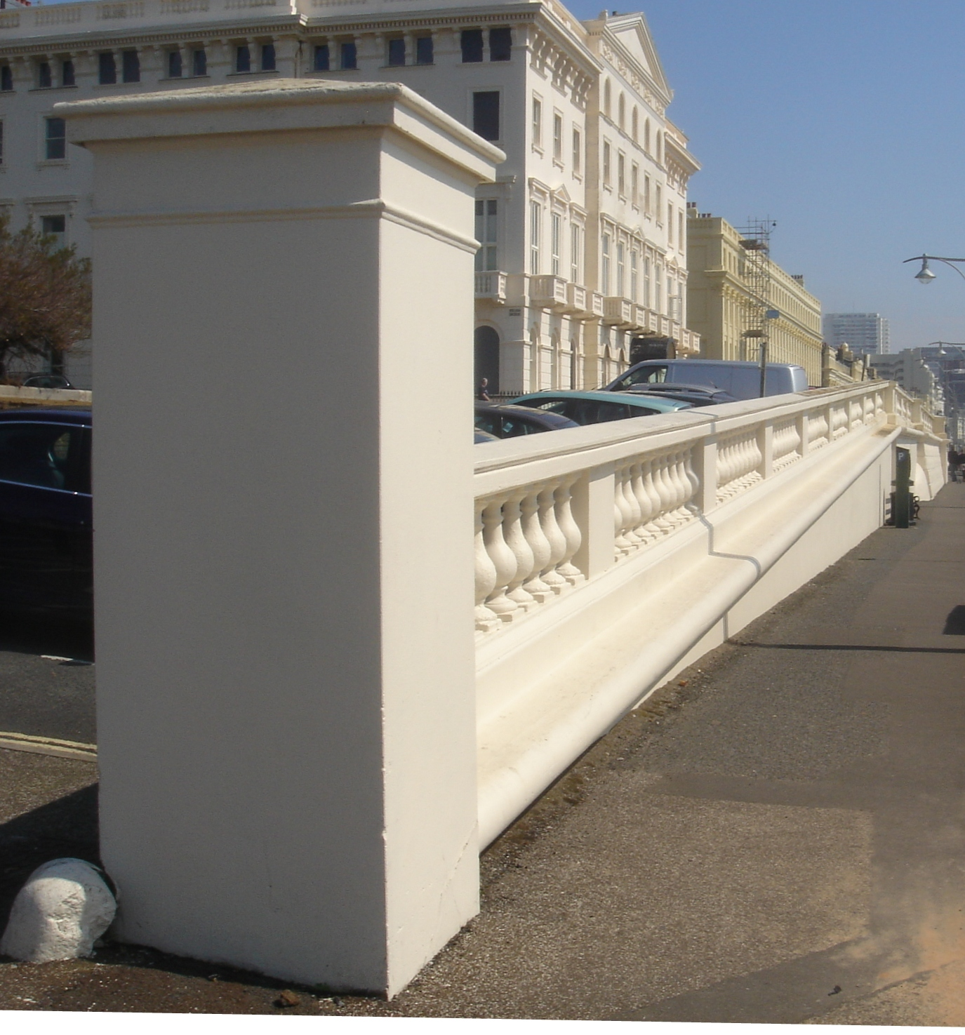 Walls, stairs and ramps in front of Adelaide Crescent, Hove, City of Brighton and Hove, England. These stand at the entrance to the Adelaide Crescent development, built in 1860. Listed at Grade II* by English Heritage (IoE Code 365482)